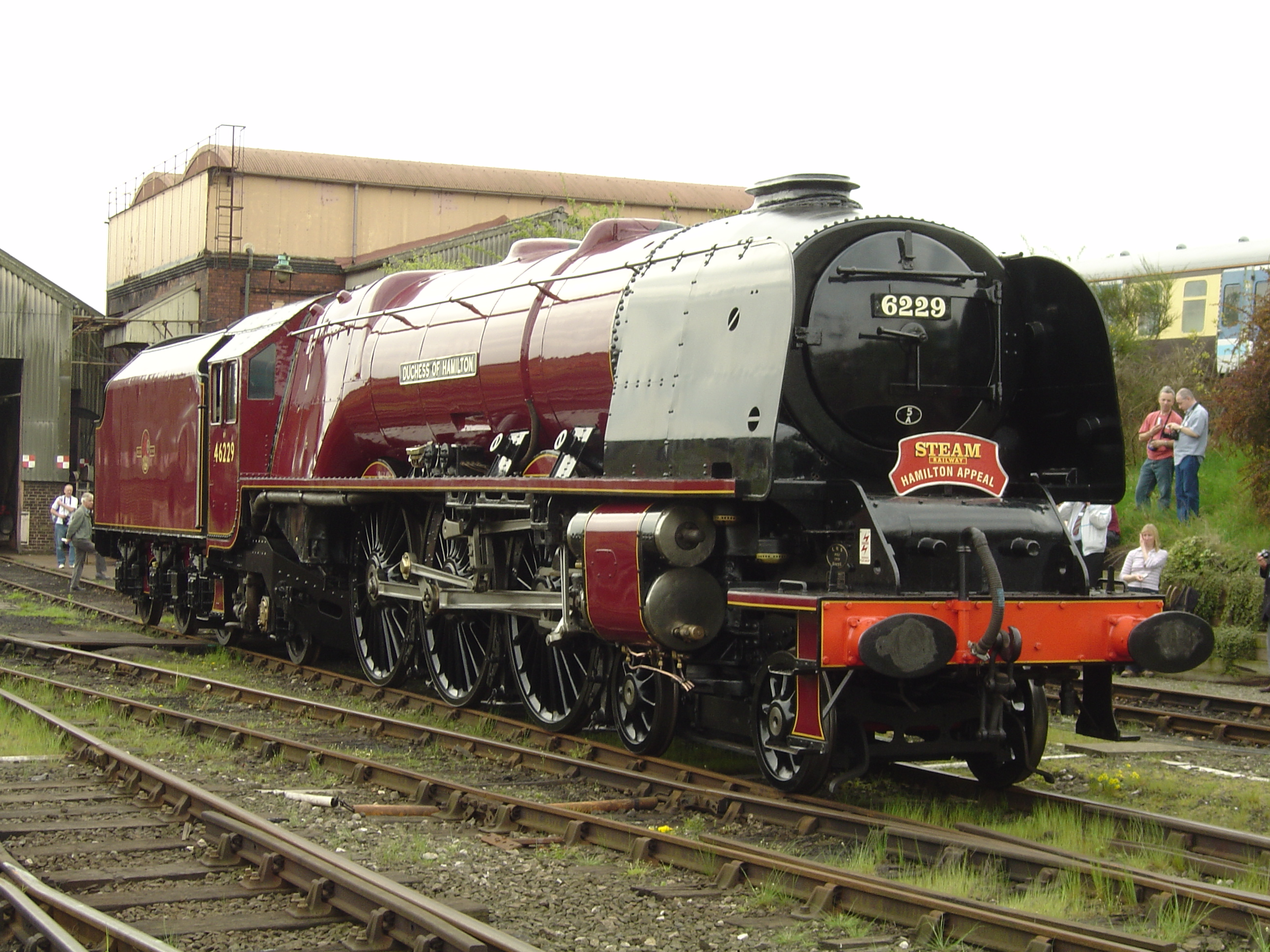 LMS Princess Coronation Class 46229 Duchess of Hamilton at Birmingham Railway Museum, in semi-streamlined condition